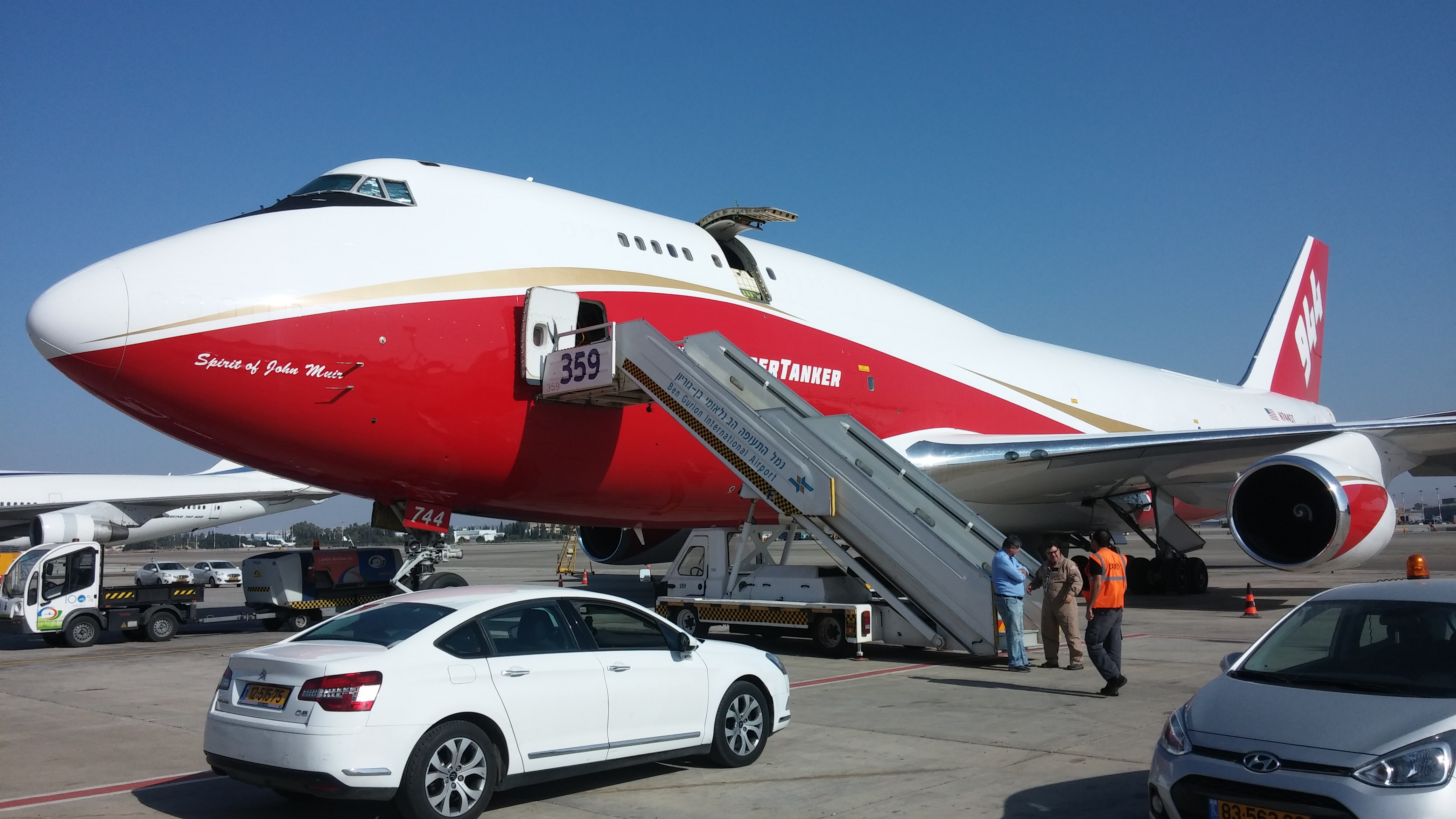 Global Supertanker